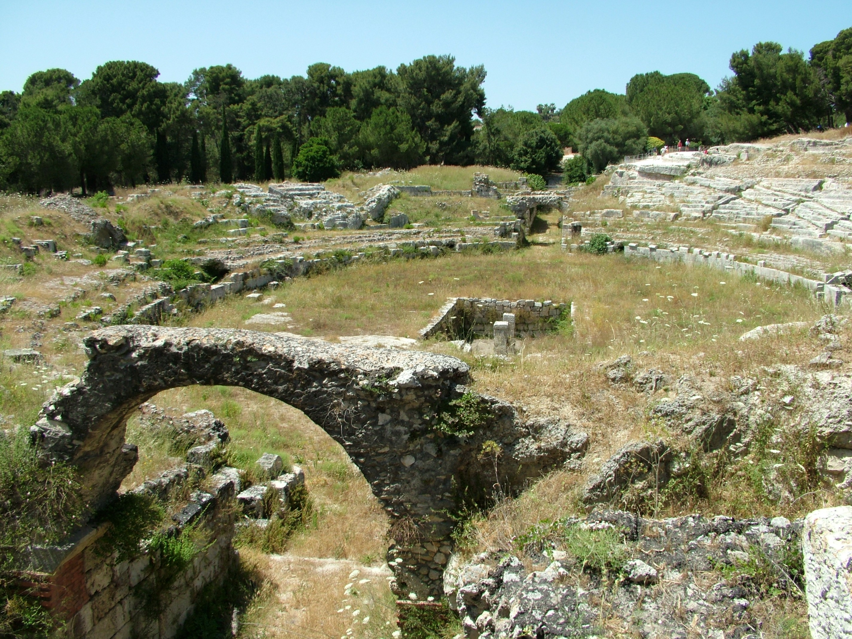 The Ancient Roman amphitheatre at Syracuse, Sicily, Italy.